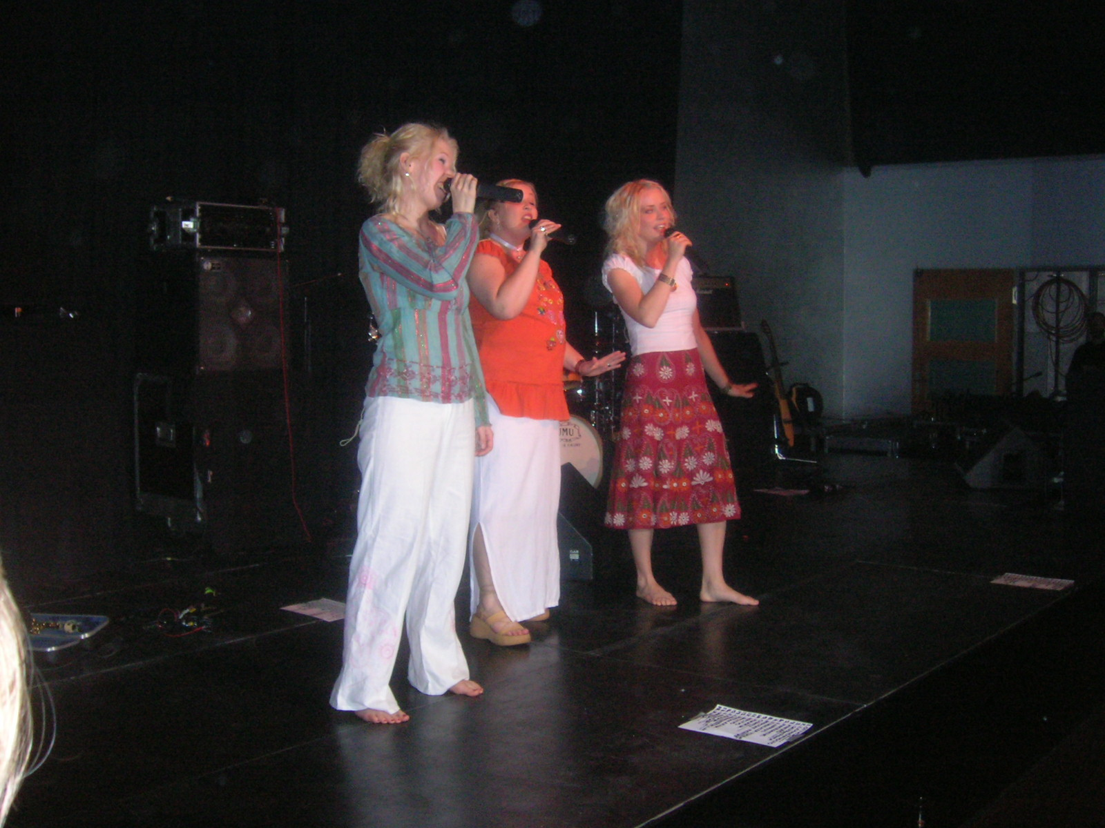 female members of the Finnish folk-pop band Värttinä